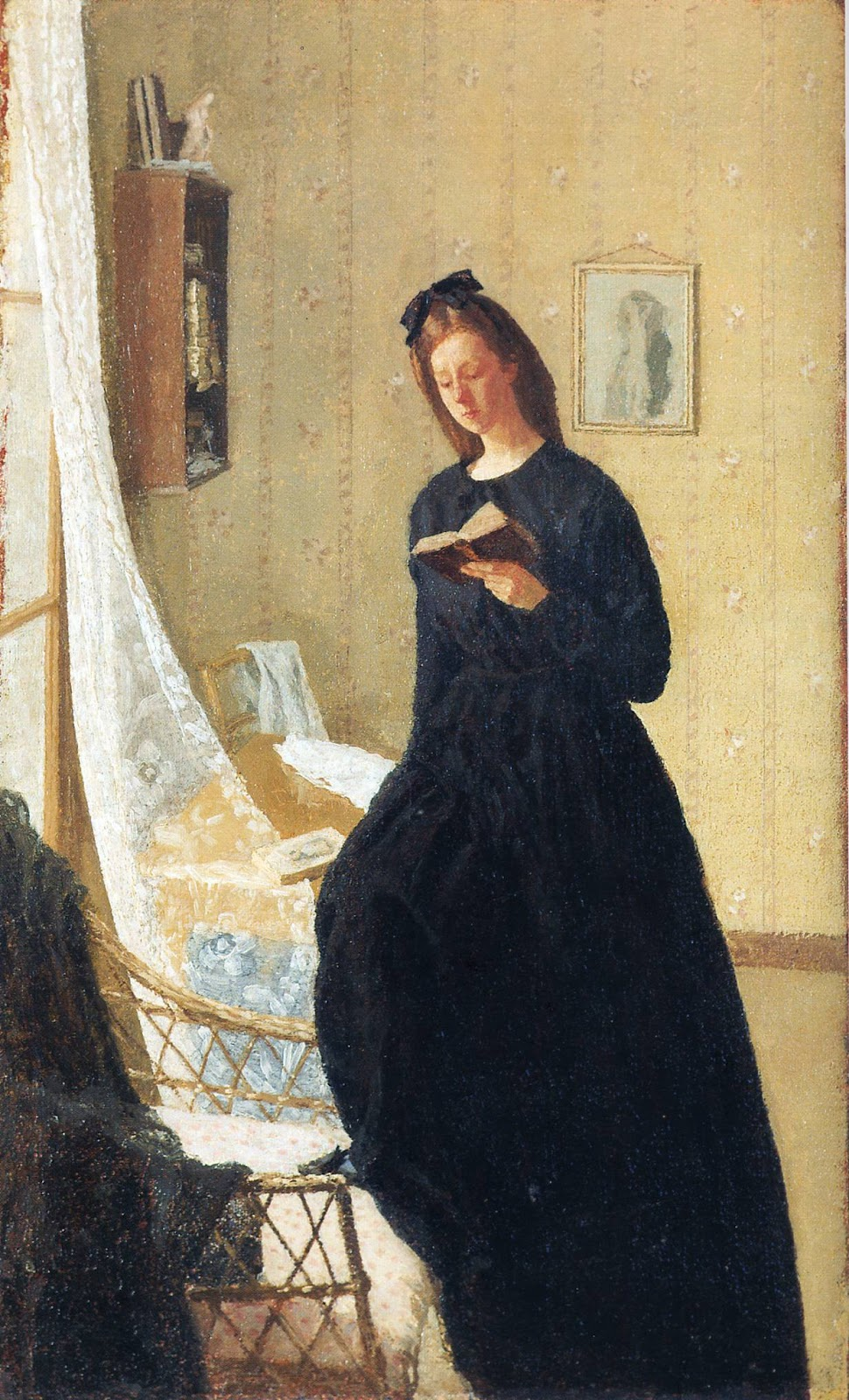 Portrait